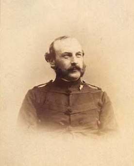 Frederik Christian Good (1827-1880), Danish officer